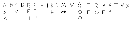 Archaic latin alphabet with variants for each letter.